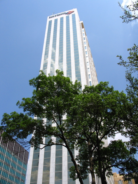 Bank of America Tower in downtown Midland, Texas. Taken May 11, 2005.